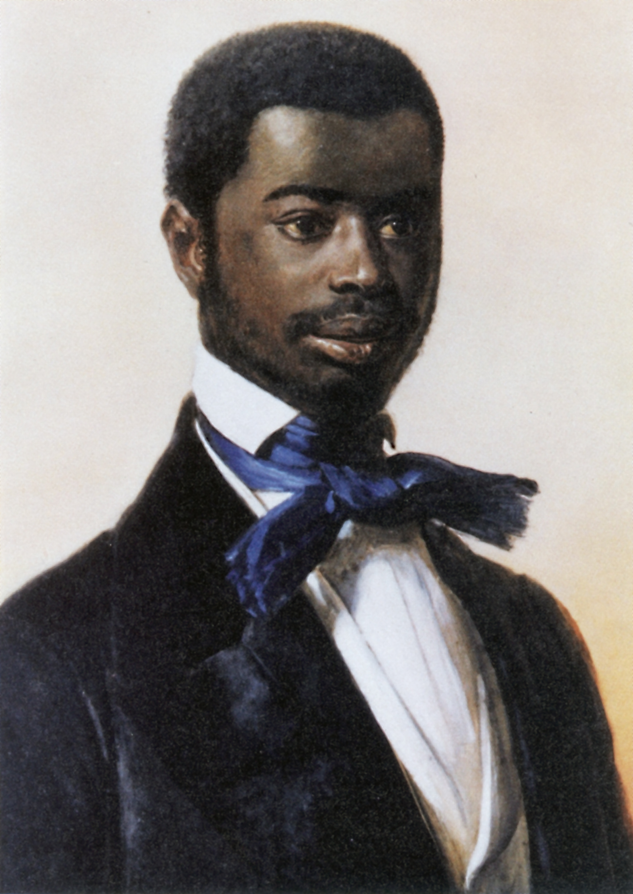 Portrait of Aquasi Boachi in the Bergakademie in Freiberg, Saxony